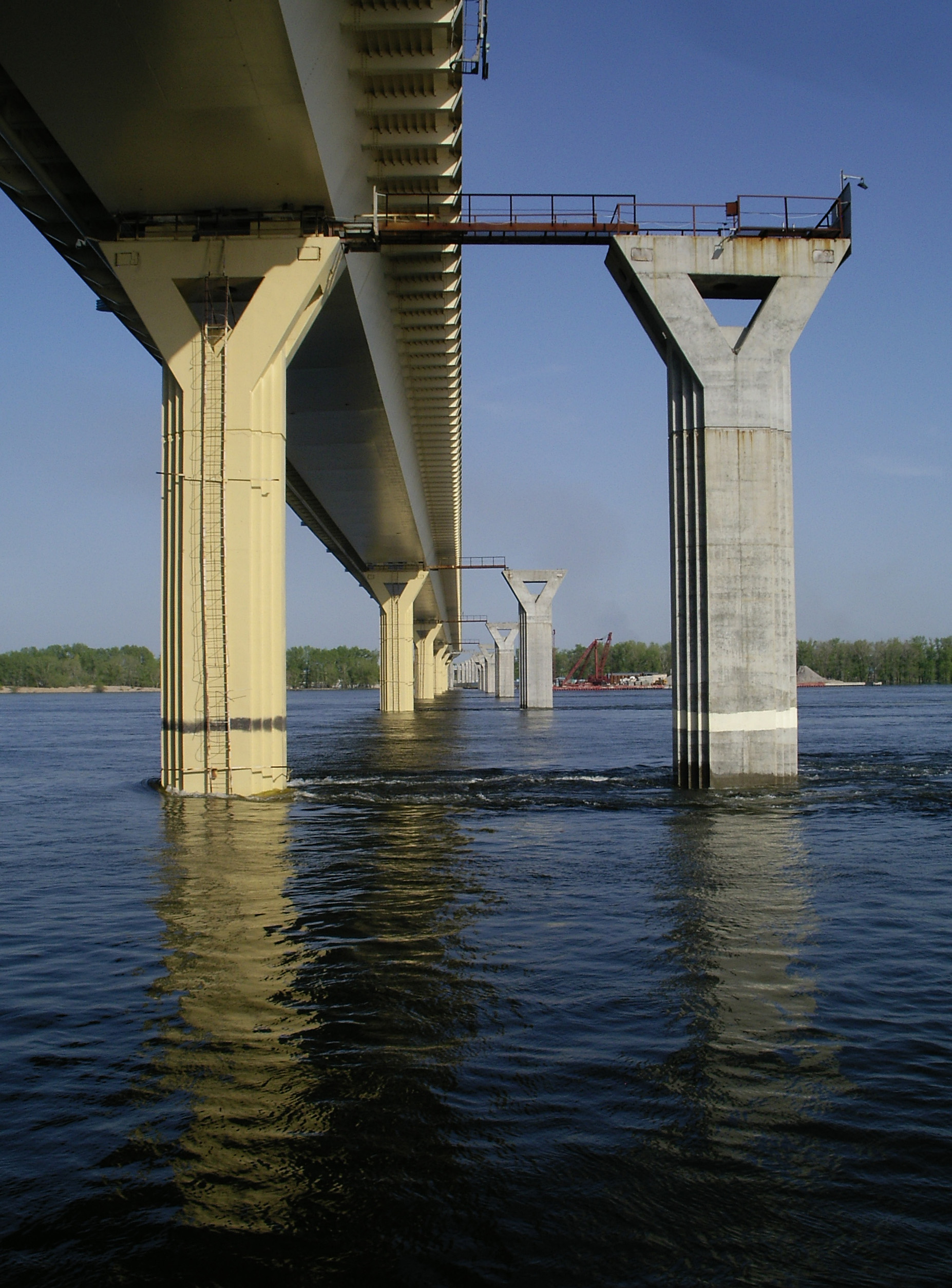 Pillars of Volgograd bridge